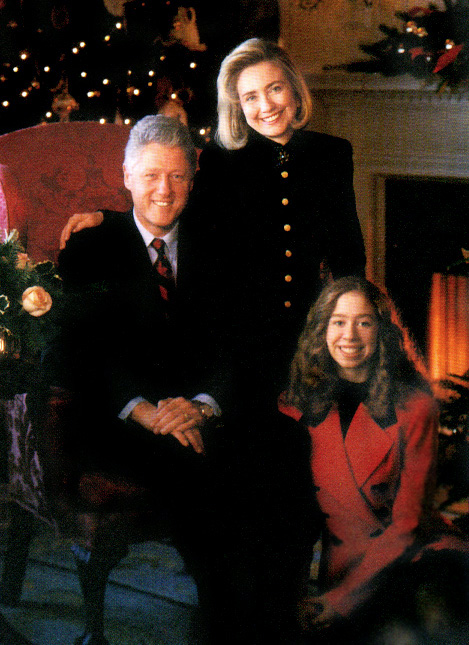 (Left to right) Bill Clinton, Hillary Clinton, Chelsea Clinton, and based on similar photos taken in the 1997 Christmas season was from that year.